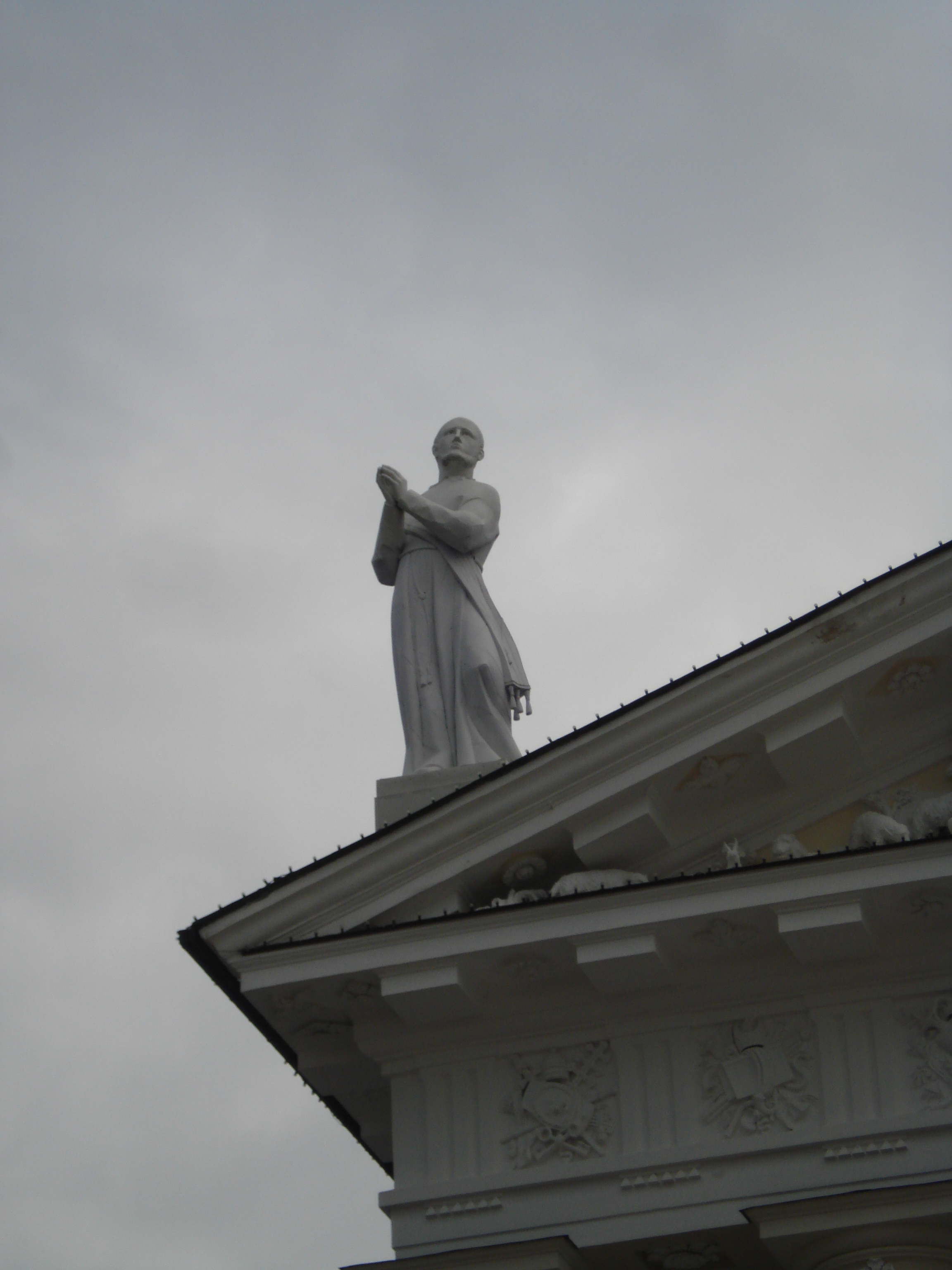 Saint Stanislaus on roof of the Cathedral by Kazimierz Jelski (removed in 1950, restored in 1997 by sculptor Stanislovas Kuzma)